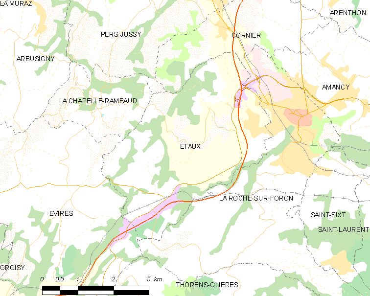 Map of French municipality Etaux